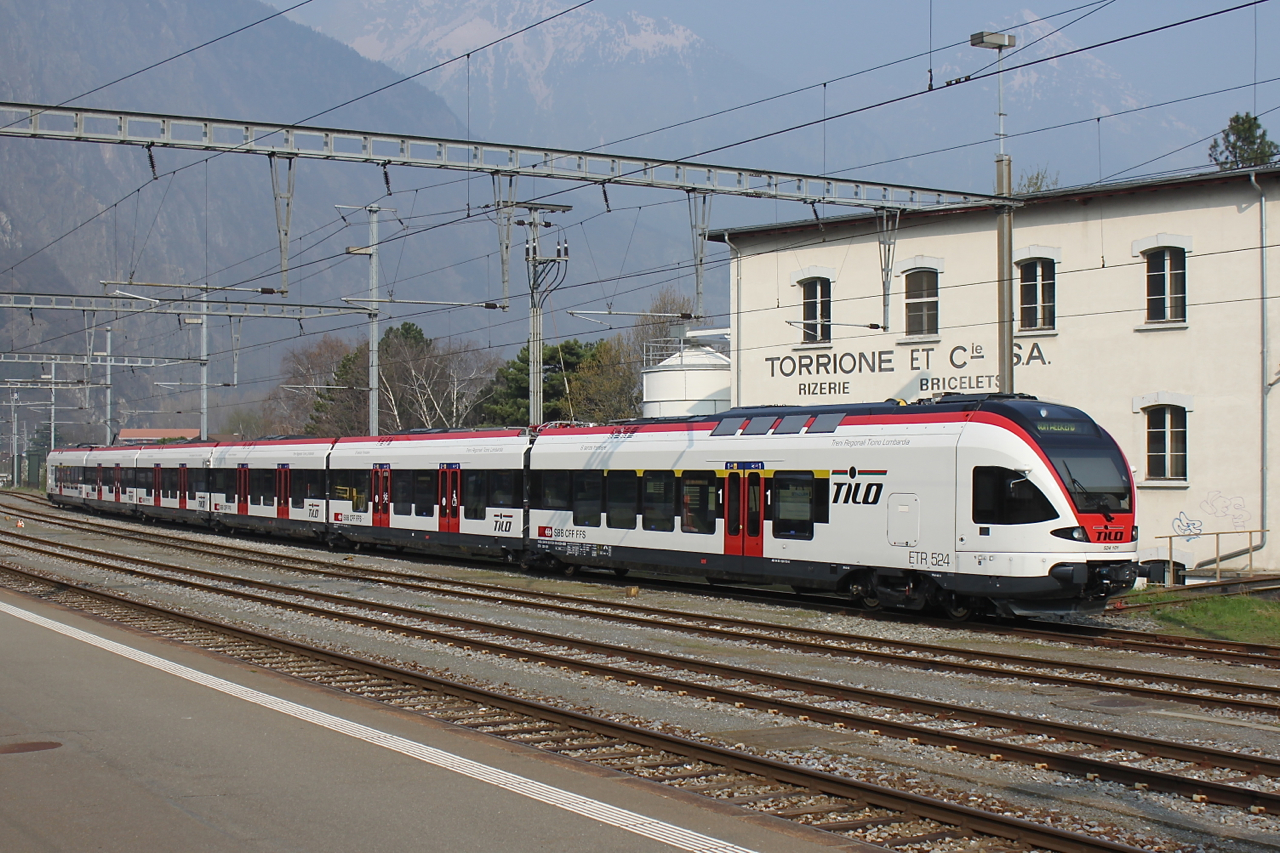 SBB CFF FFS RABe 524 101 at Martigny while doing trials on the Simplon line.